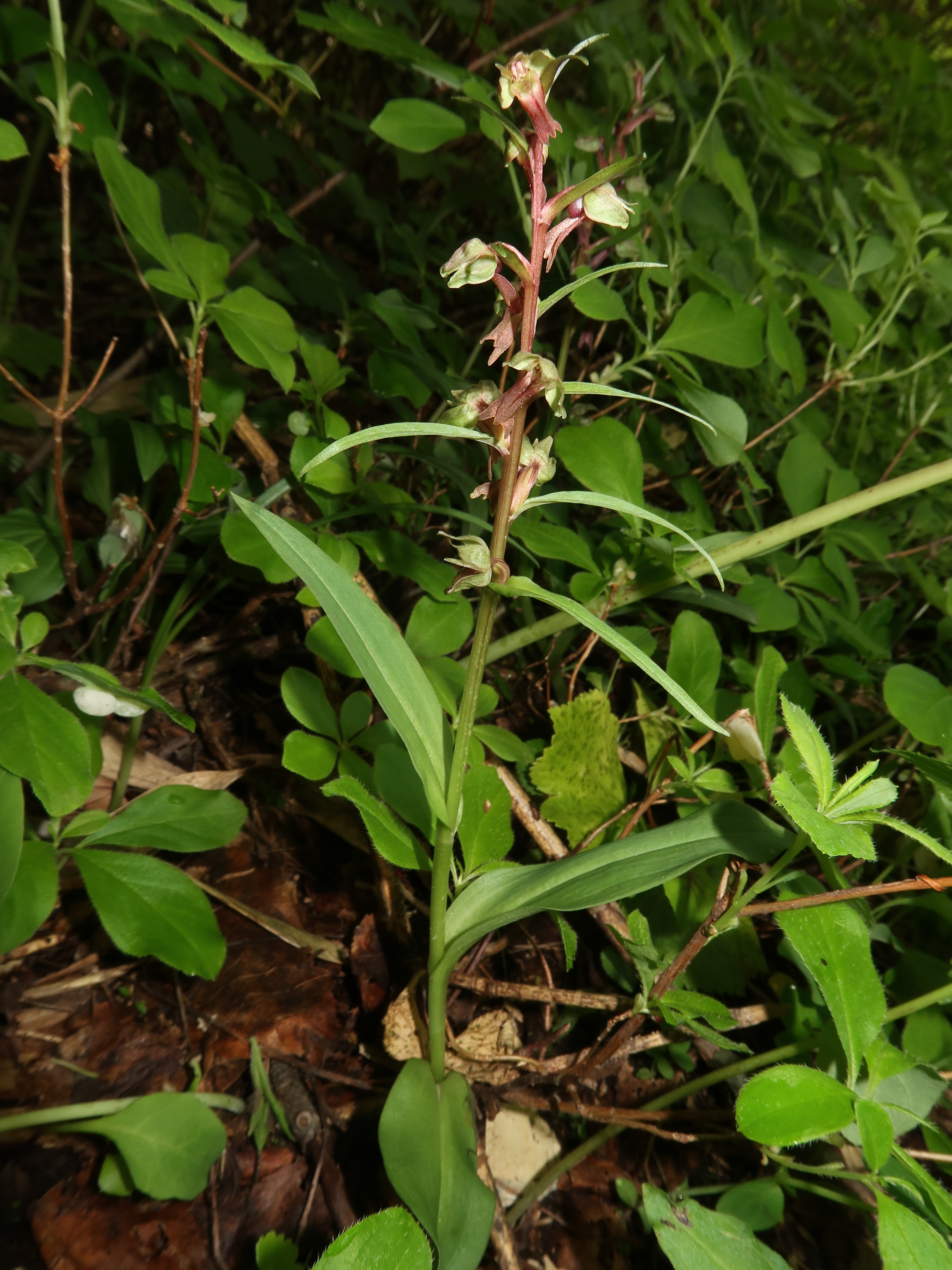 Dactylorhiza viridis, Mount Bandai, Fukushima pref., Japan